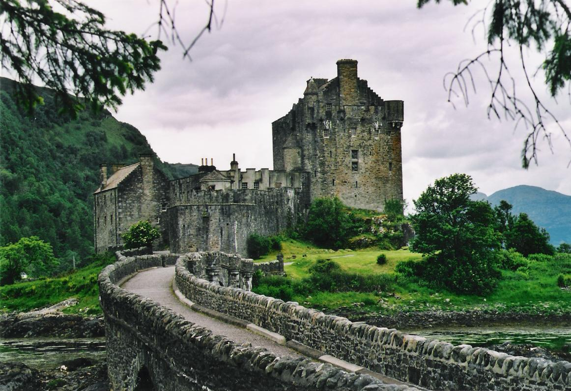 Eilean Donan Castle in Scotland.